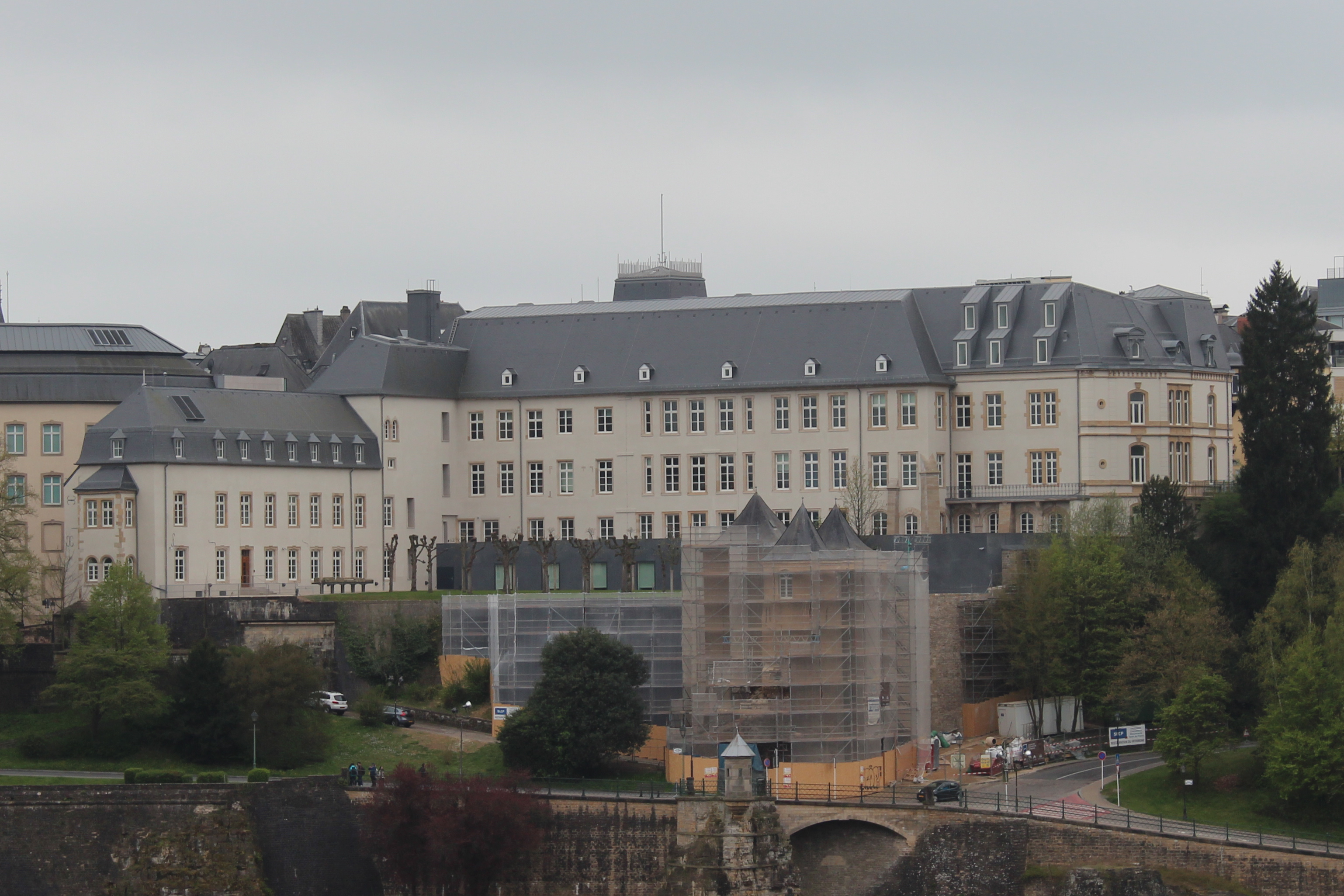 Rear sight of the Mansfeld Building (Bâtiment Mansfeld) in Luxembourg City, built in 16th c. as a Governor's Palace, then served in the 19th and 20th c. as an administrative building, and until 2007 for about 120 years as a Palace of Justice. After its renovation, it hosts since 2017 the Ministry of Foreign Affairs.